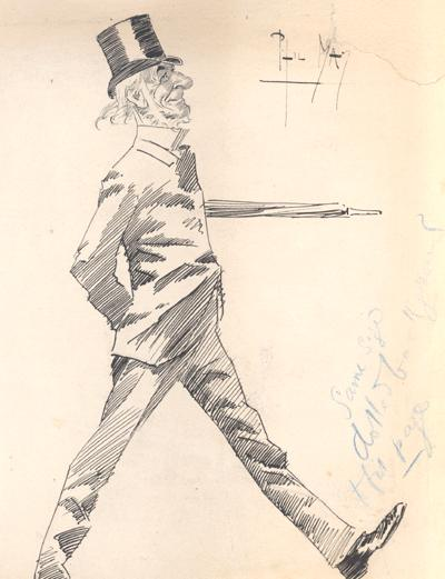 A caricature of William Gladstone written by Phil May.